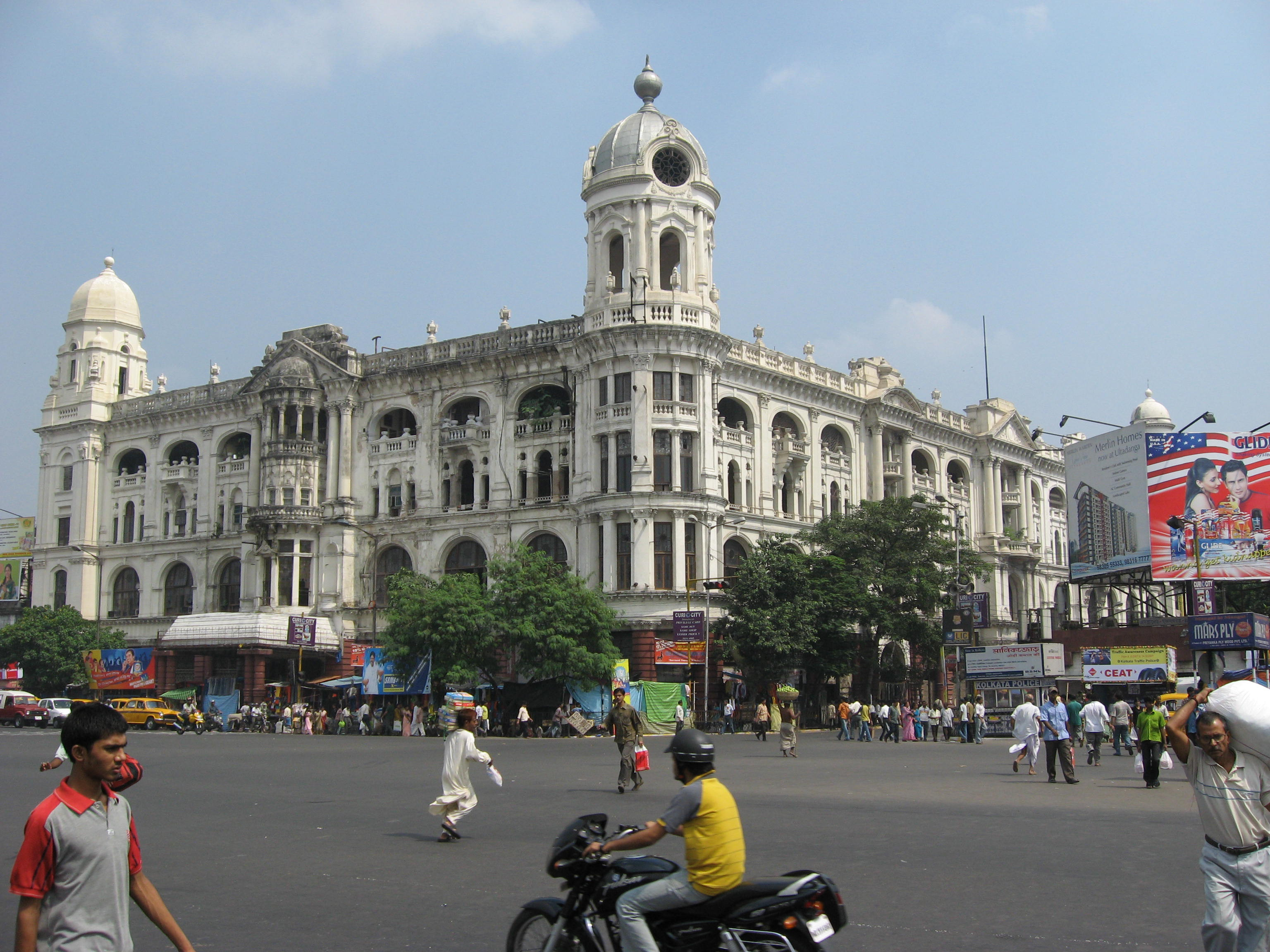 Whiteways and Laidlaw Building in Kolkata now renamed as Metropolitan Building.